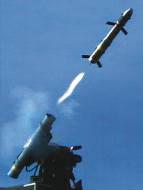 Test launch of an AGM-176 "GRIFFIN" missile from a ground-based tube.